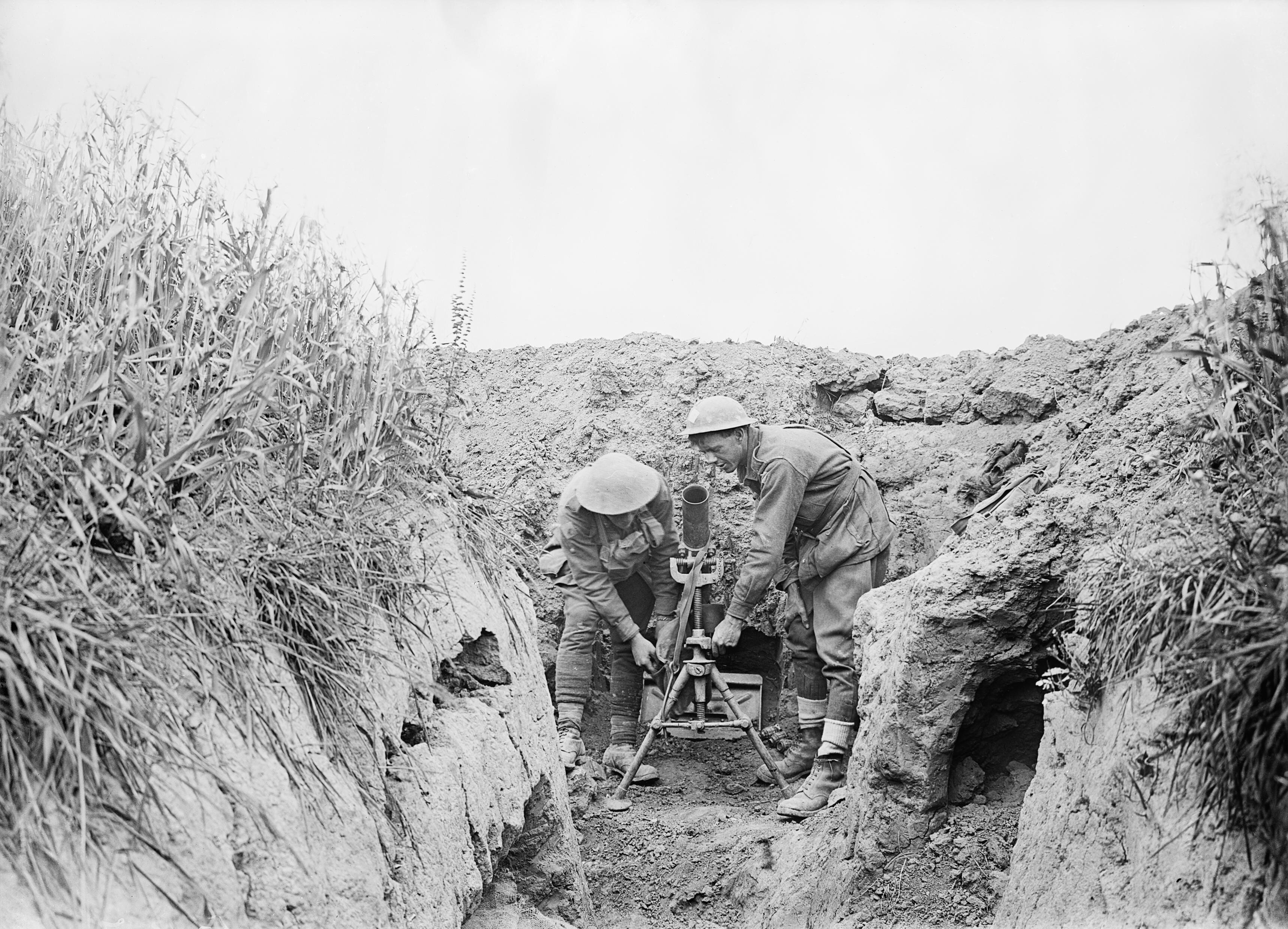 Two men of the 7th Australian Light Trench Mortar Battery operate a light trench mortar established in a machine gun post on the new front line. From left to right: 1916 Lance Corporal A. J. Ellis and 2700 Private A. Lawler. This position was part of a few hundred yards captured from the enemy in a silent daylight raid the day previously by a party of the 27th Battalion. The location is just east of Villers-Bretonneux between the railway and the south side of the Amiens-St Quentin main road, alongside a position called 'The Orchard'. Comment : 7th Light Trench Mortar Battery served with 7th Infantry Brigade in 2nd Division Place made: France: Picardie, Somme Villers-Bretonneux Comment : The mortar is a 3 inch Stokes Mortar. NOTE : This version of the photograph has brightness and contrast artificially increased to highlight details.